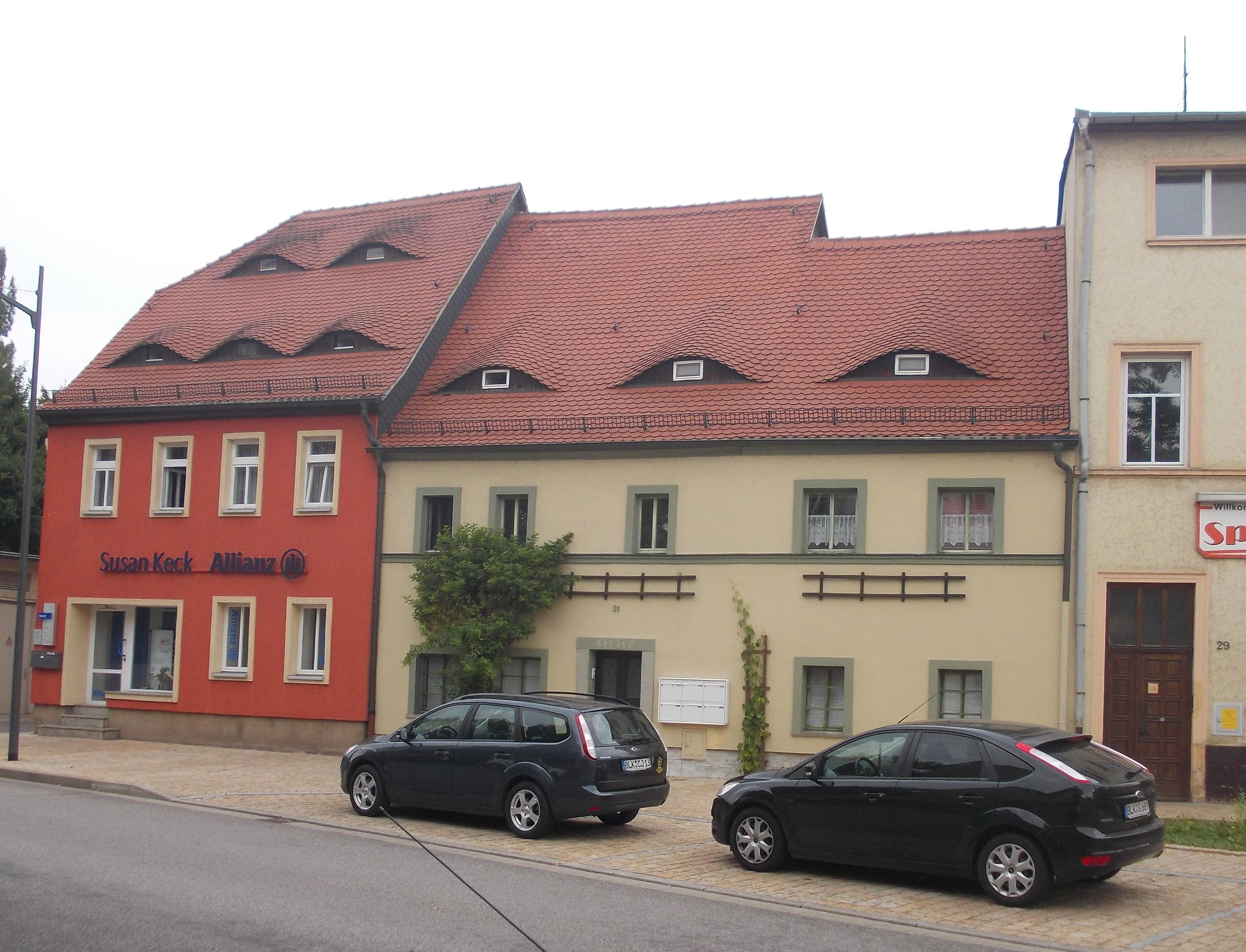 No. 31 and 33, Dammstrasse in Weißenfels (district: Burgenlandkreis, Saxony-Anhalt)